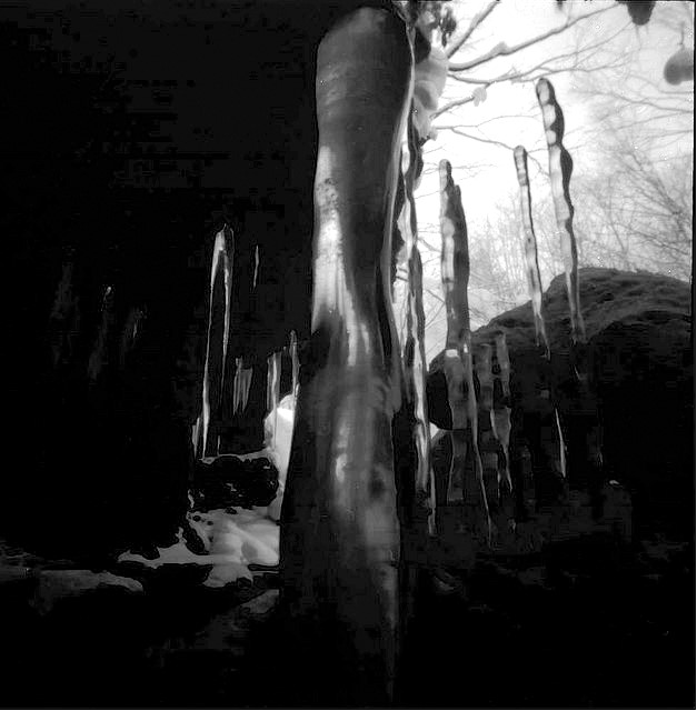 Hyōjun (upside down icicles) at Karurusu Onsen, Noboribetsu, Hokkaidō.